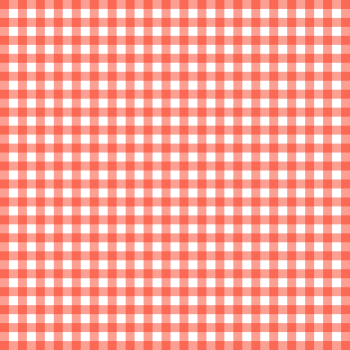 Graphical example of Vichy check in red and white.